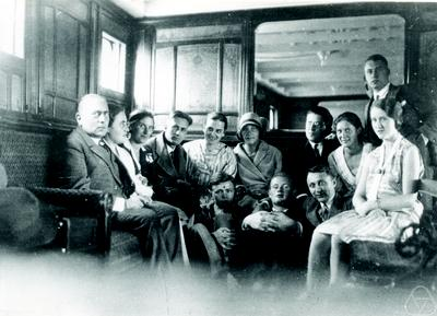 Description at MFO: On the Photo: * Toeplitz, Otto * Hagemann, E. * Vieth, D. * Ulm, H. * Köthe, Gottfried * Location: * Author: Jacobs, Konrad (photos provided by Jacobs, Konrad) * Source: Konrad Jacobs, Erlangen * Year: 1930 * Copyright: MFO * Photo ID: 4233